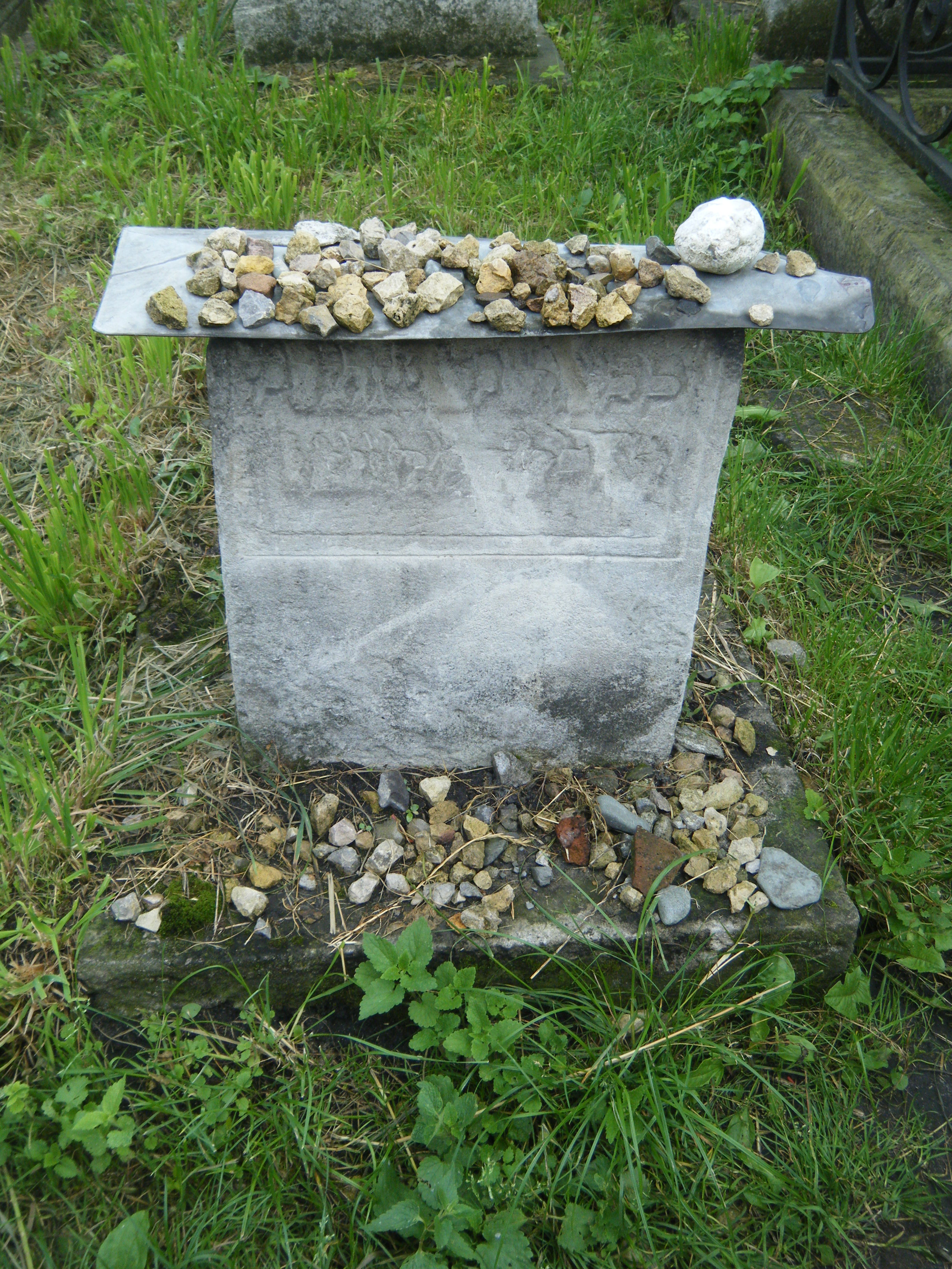 The tombstone of Yossele the Holy Miser found in the Remah Cemetery in the Kazimierz Jewish quarter of Kraków, Poland. According to Jewish folklore, the wealthy Yossele, known as Yossele the Miser, was notorious for his stinginess. Upon his death though, it was discovered that he was in fact the principal source of charity for the Jewish community and he became a venerated figure. According to Jewish bereavement tradition, the dozens of stones on his tombstone mark respect for the Holy Miser.